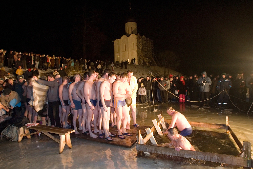 “Epiphany bathing”. Bathing in an ice hole at the Intercession Cathedral on Nerli (Bogolyubovo village). Orthodox believers celebrating the Feast of the Epiphany.